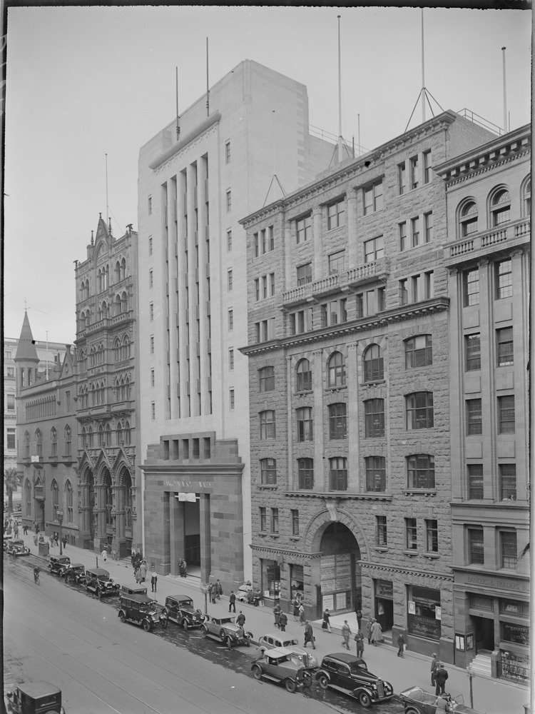 The Gothic Bank, Bank of New South Wales, and the Bankers & Traders Building on Collins St in Melbourne, Australia. (Since demolished)